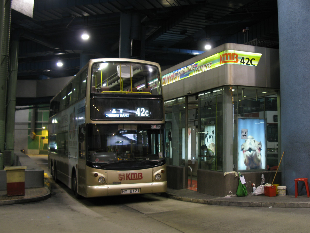 KMB Route No.42C & Air-conditioned Passenger Waiting Lounge at Lam Tin Public Transport Interchange